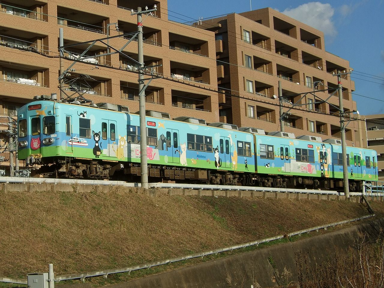 Nishi Nippon Railroad EMU Type600 "Nyan-Den" / Formation:601-651 / Location:Nishitetsu Kaizuka Line between Wajiro and Mitoma Station, Higashi Ward, Fukuoka City, Fukuoka, Japan.